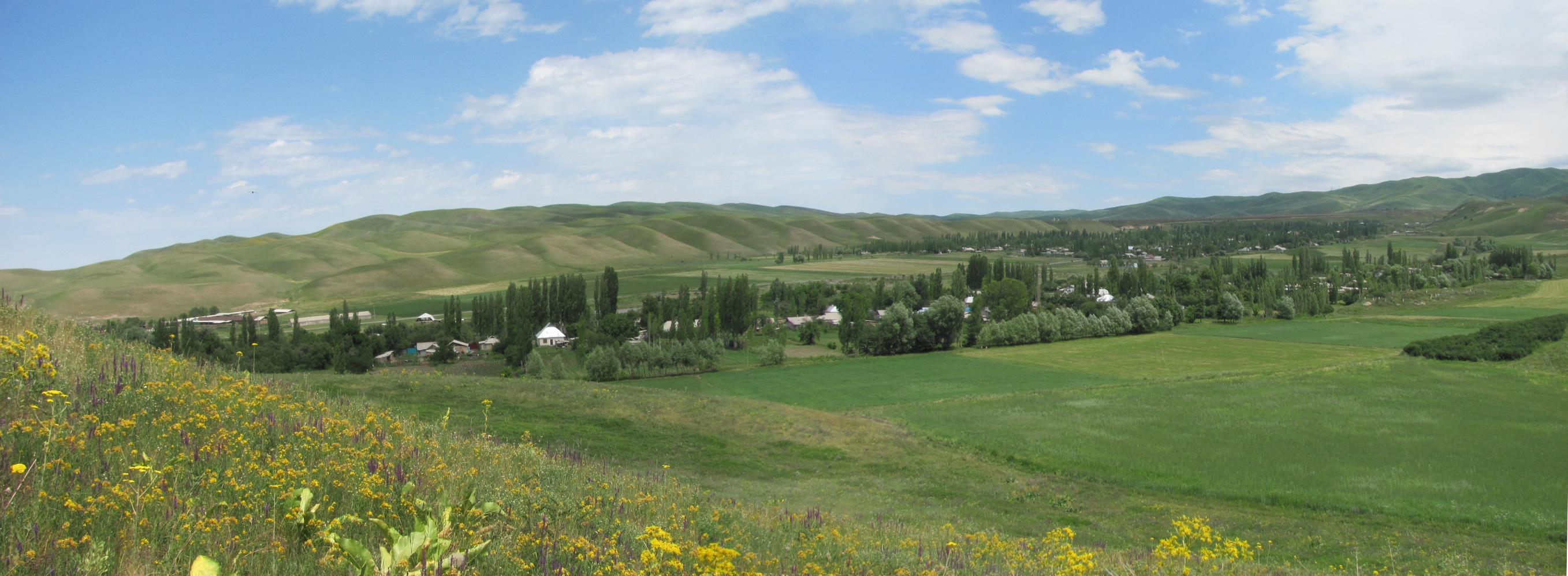 The southern part of Temen-Suu village as from the west. Aq-Bashat village is visible on the other side of Temen-Suu. Кыргызча: Темен-Суу айылынын түштүк жагы, батышынан карап. Нары жагында Ак-Башат айылы да көрүнөт.